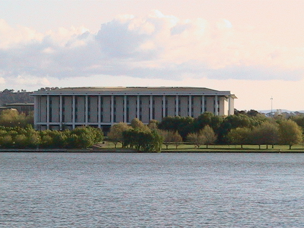 National Library at Dusk Photo taken from Regatta Point, Canberra ACT by Adam Spence.